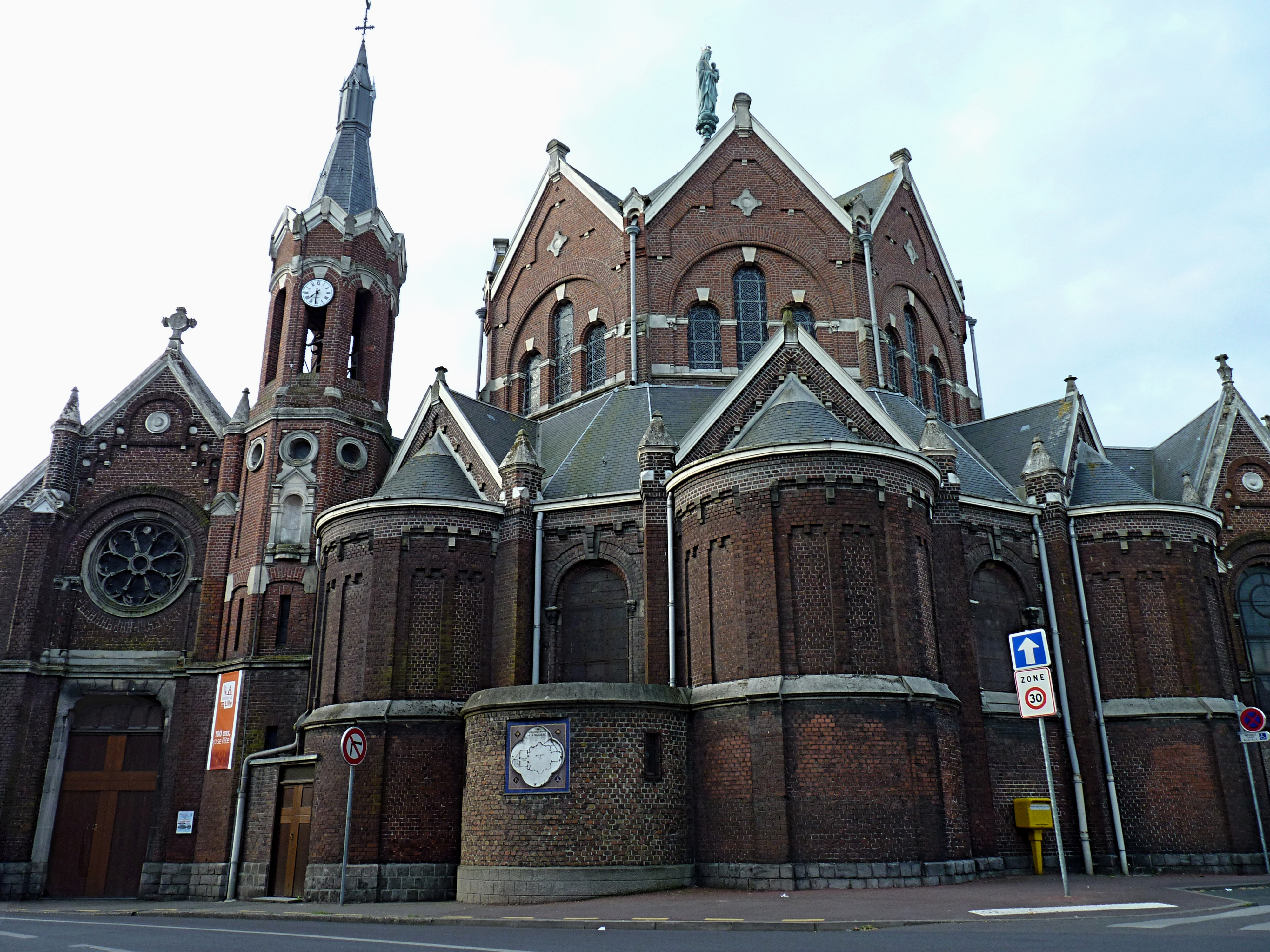 Church Notre-Dame de la Marlière in Tourcoing (Nord), France, built in the 17th century.